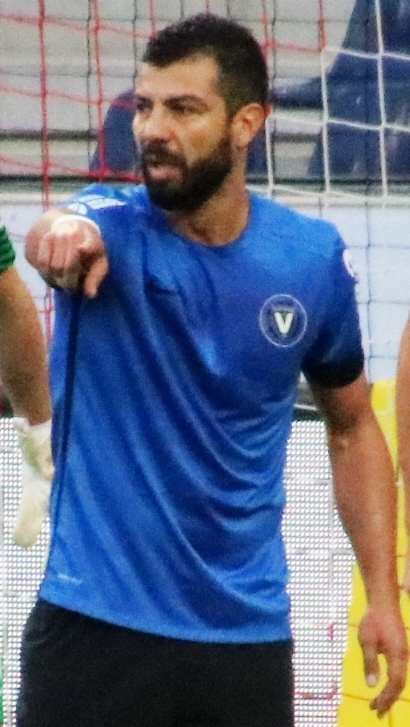 Euroleague play off 2nd leg